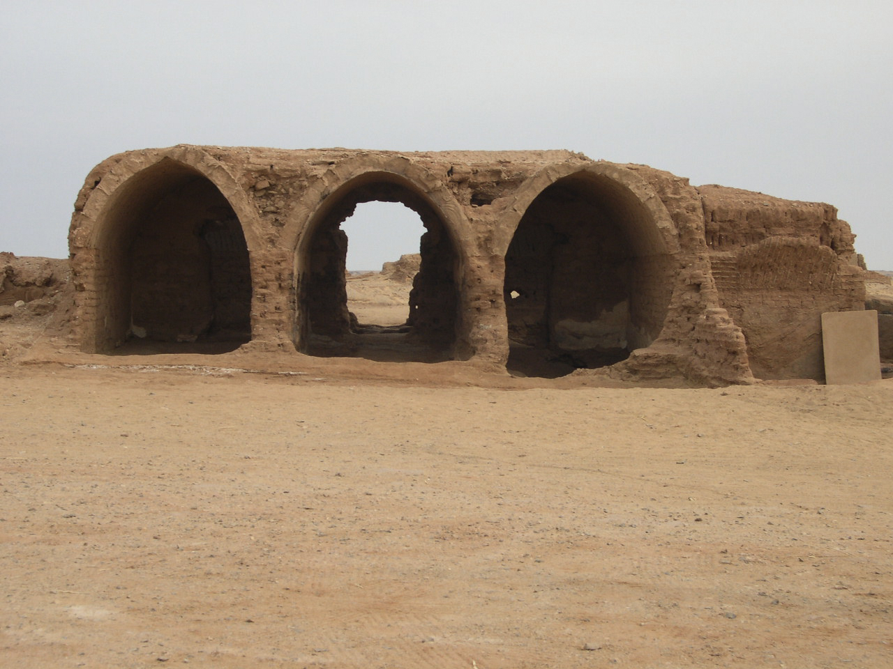 AWIB-ISAW: Kellis 2004 (XXXIX) The vaulted back rooms of several of the north tombs at Kellis: north tomb 7 is missing its back wall. by NYU Excavations at Amheida Staff (2004) copyright: 2004 NYU Excavations at Amheida (used with permission) photographed place: Kellis (Esment el-Kharab) authority: Image published on the authority of the Amheida Project Director, Roger Bagnall Published by the Institute for the Study of the Ancient World as part of the Ancient World Image Bank (AWIB). Further information: Visit this site at